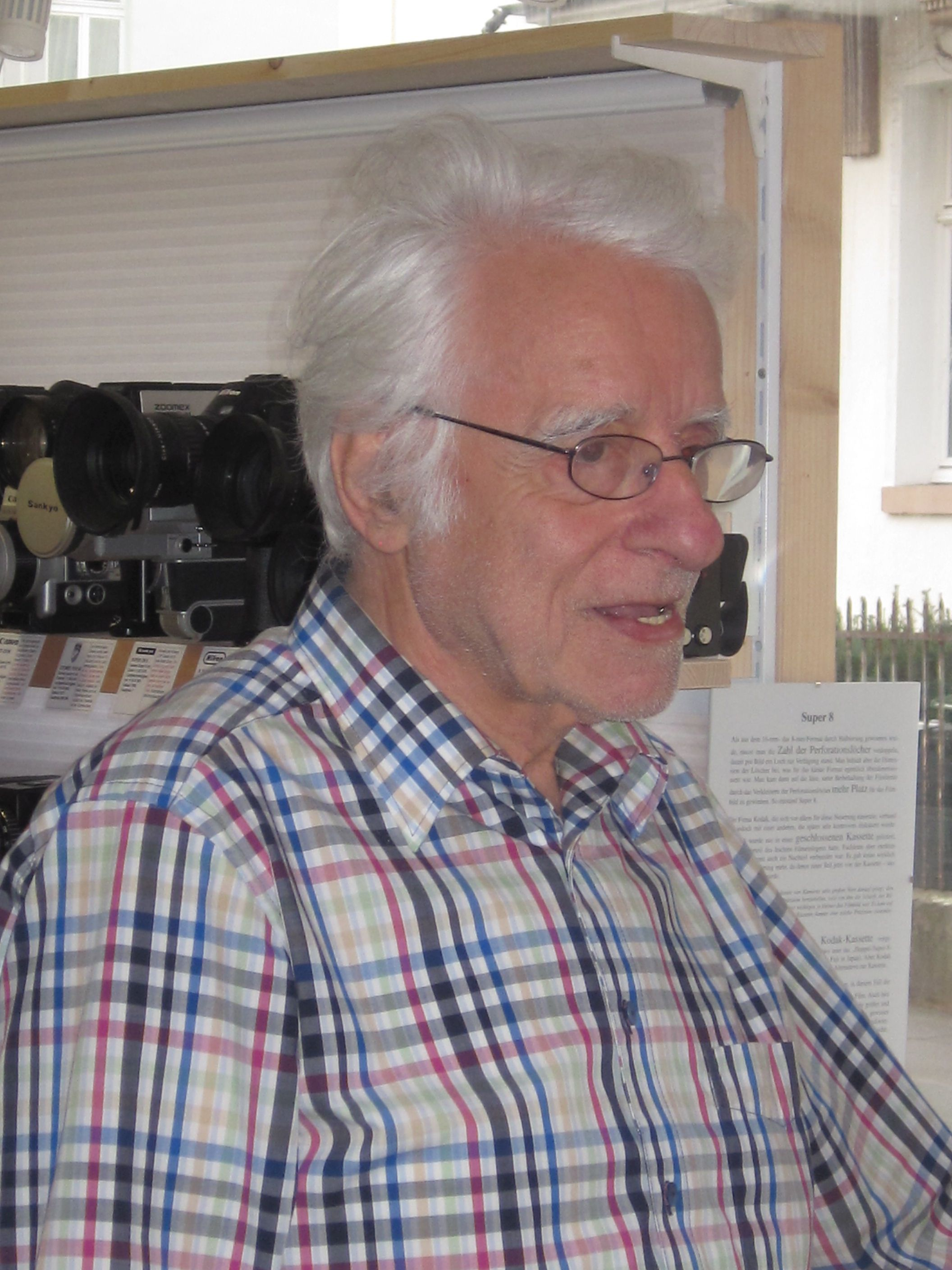 German media scholar Günter Giesenfeld, Marburg 2015